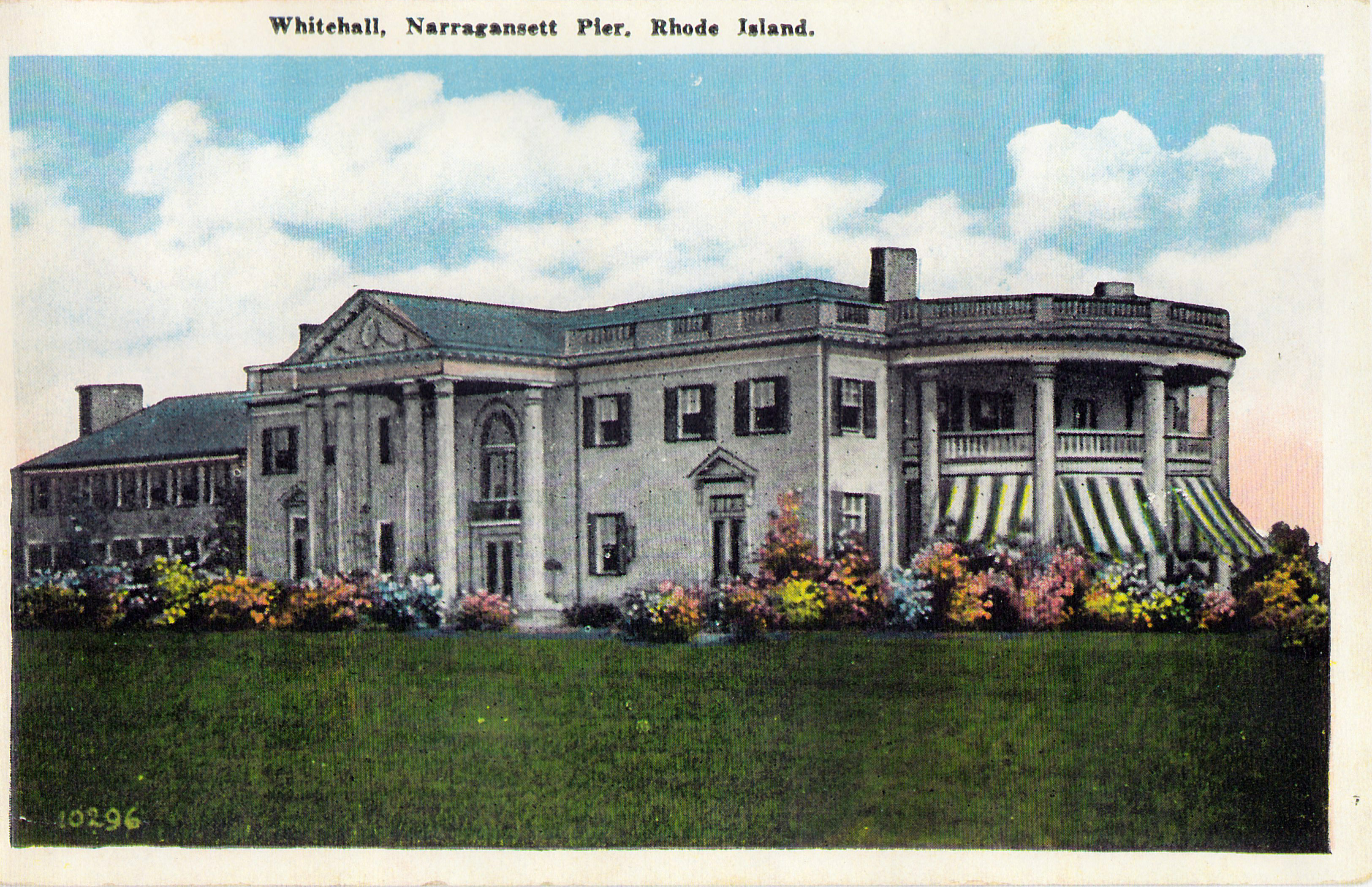 A postcard showing the Whitehall estate built by Captain Isaac E. Emerson, The Bromo-Seltzer King, at Narragansett Pier, Rhode Island.